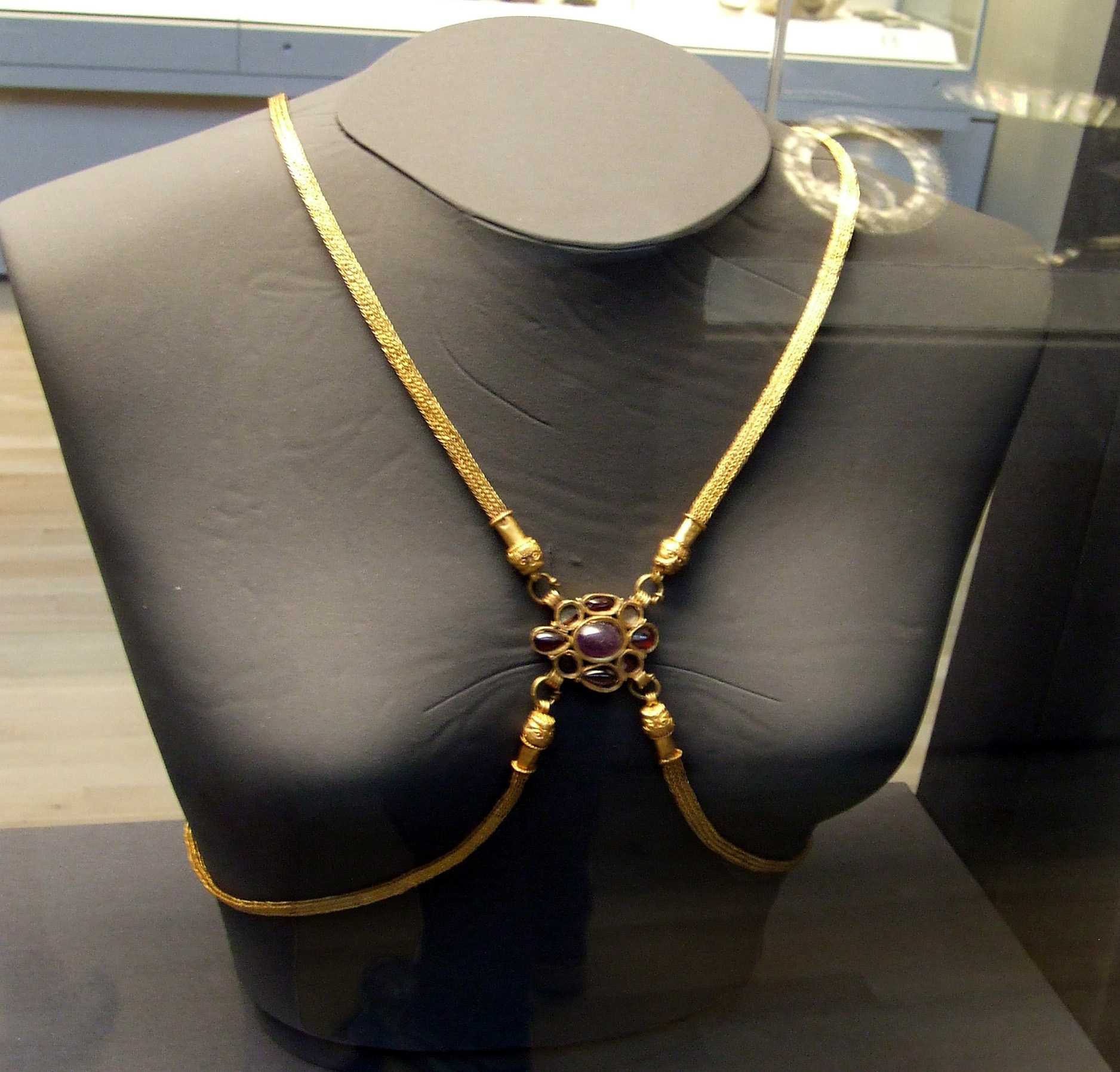 Gold body-chain from the Hoxne hoard. Currently in the British Museum. The photo suffers from various reflections in the glass display cabinet.